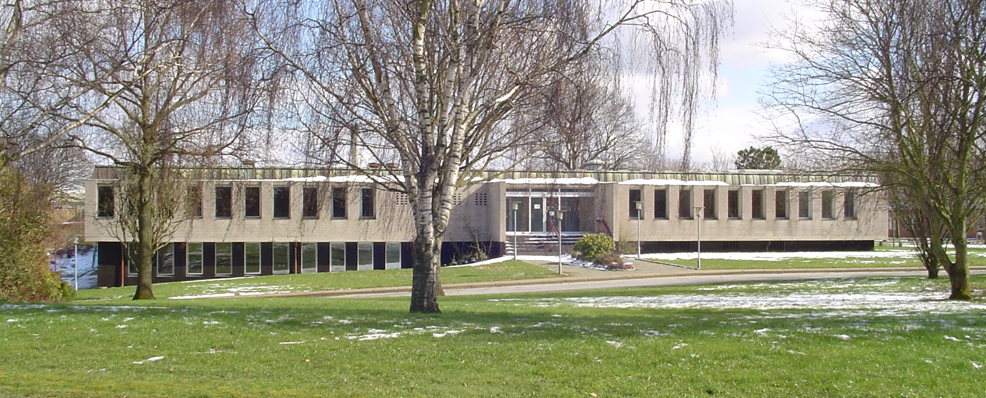 Townhall in the former Tjele Municipality located in Ørum Sønderlyng from West entrance.